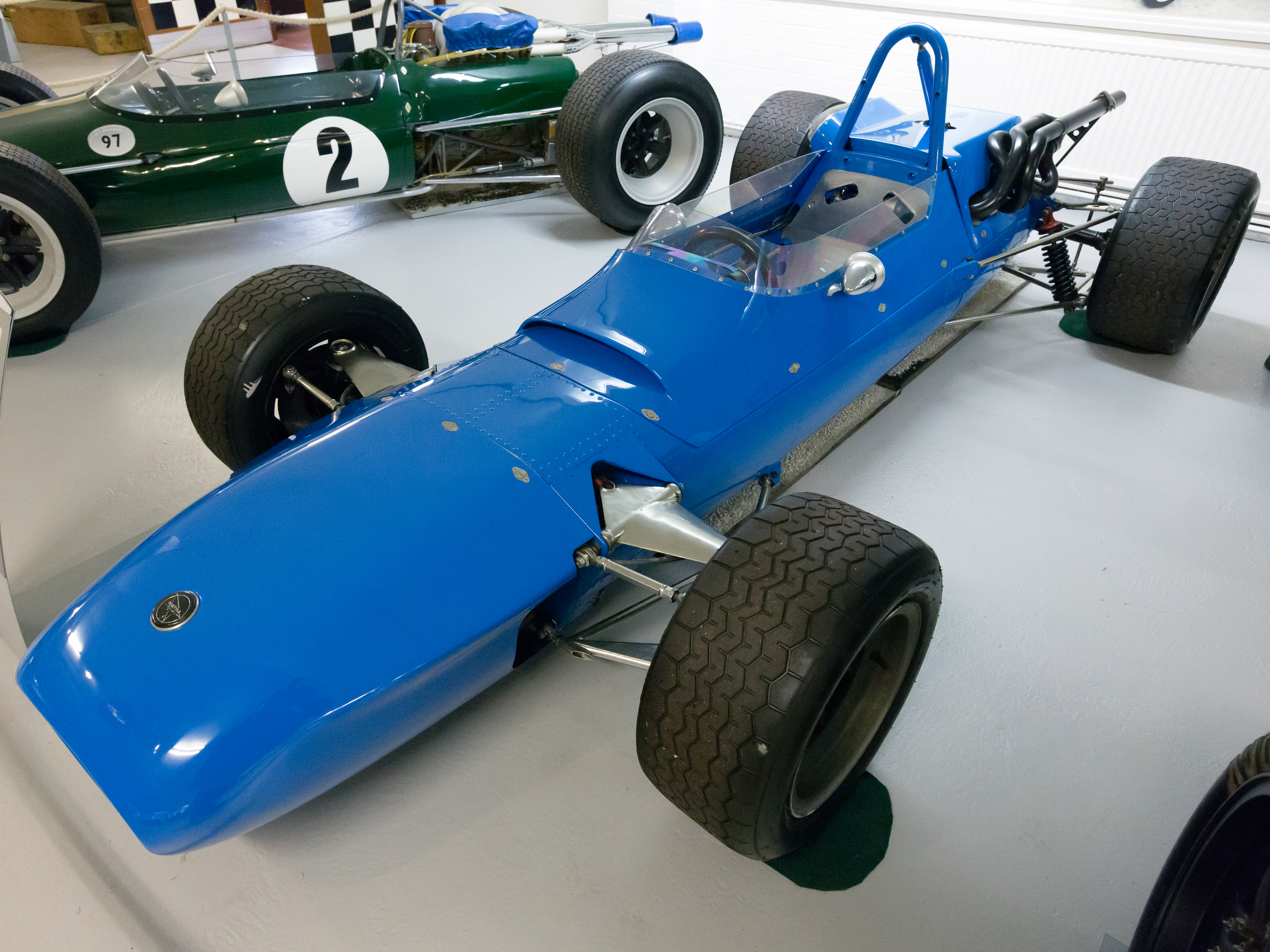 1967 Matra MS5